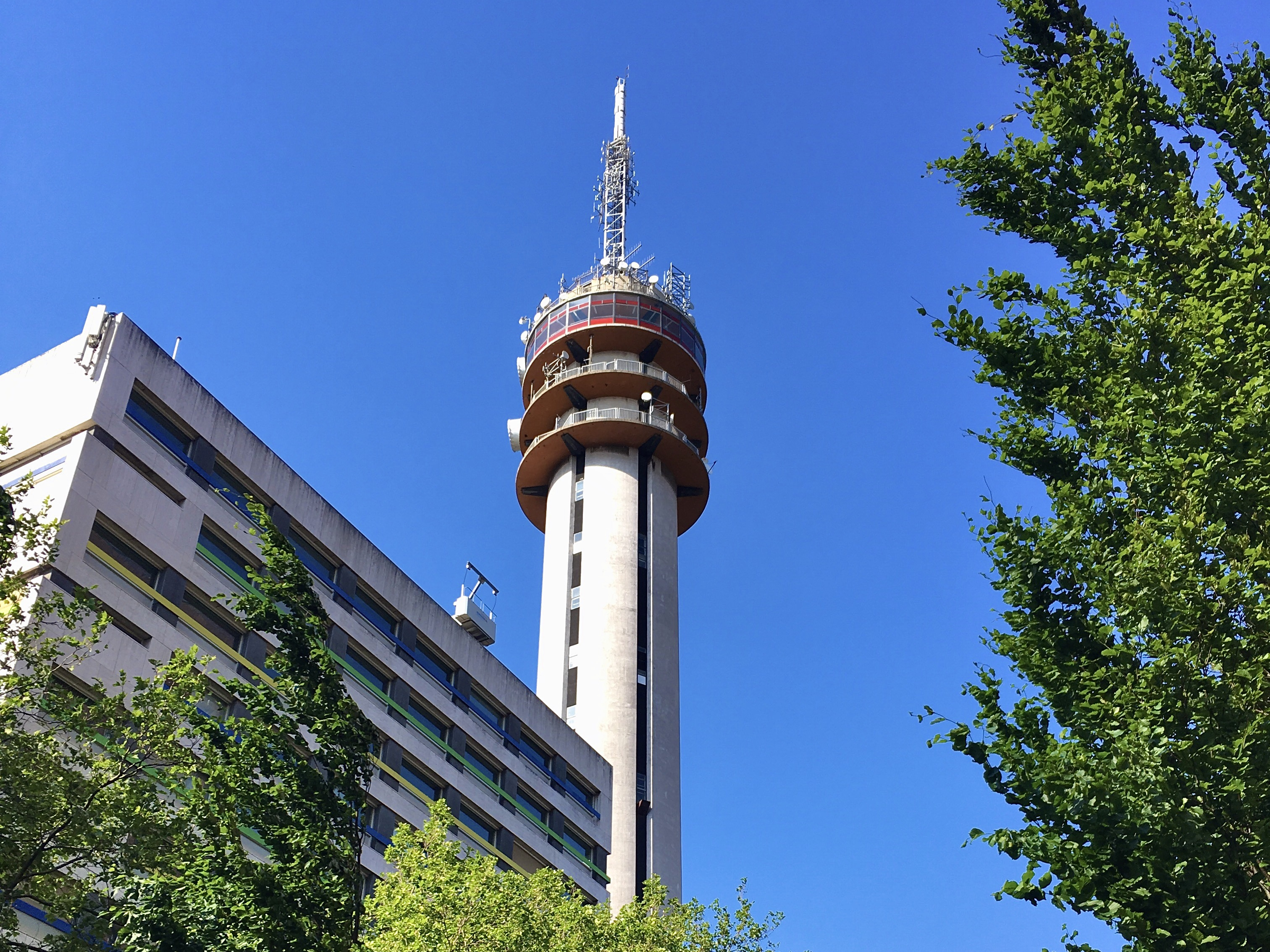 Broadcasting tower at Louise Henriëttestraat 385 in The Hague in the Bezuidenhout district. The tower is 99 meters tall, including the antenna it's 133 meters tall. It was constructed in 1967.